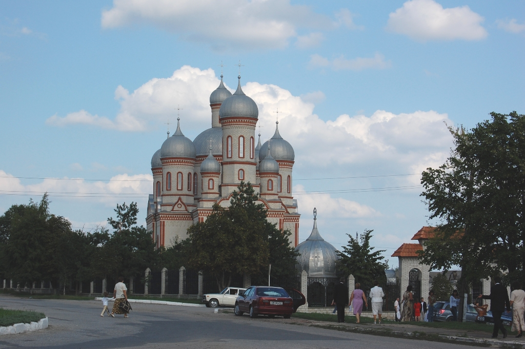 Catedrala Maicii Domnului - intrare